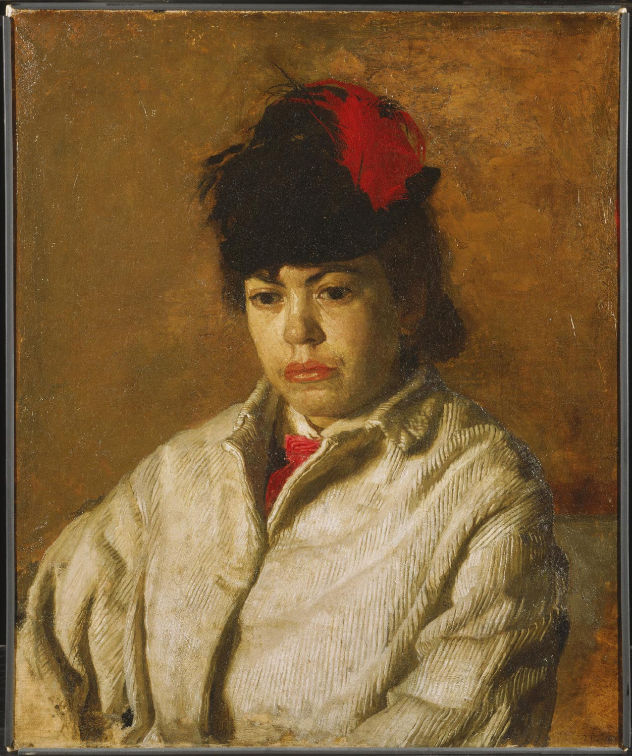 "Margaret in Skating Costume" by Thomas Eakins